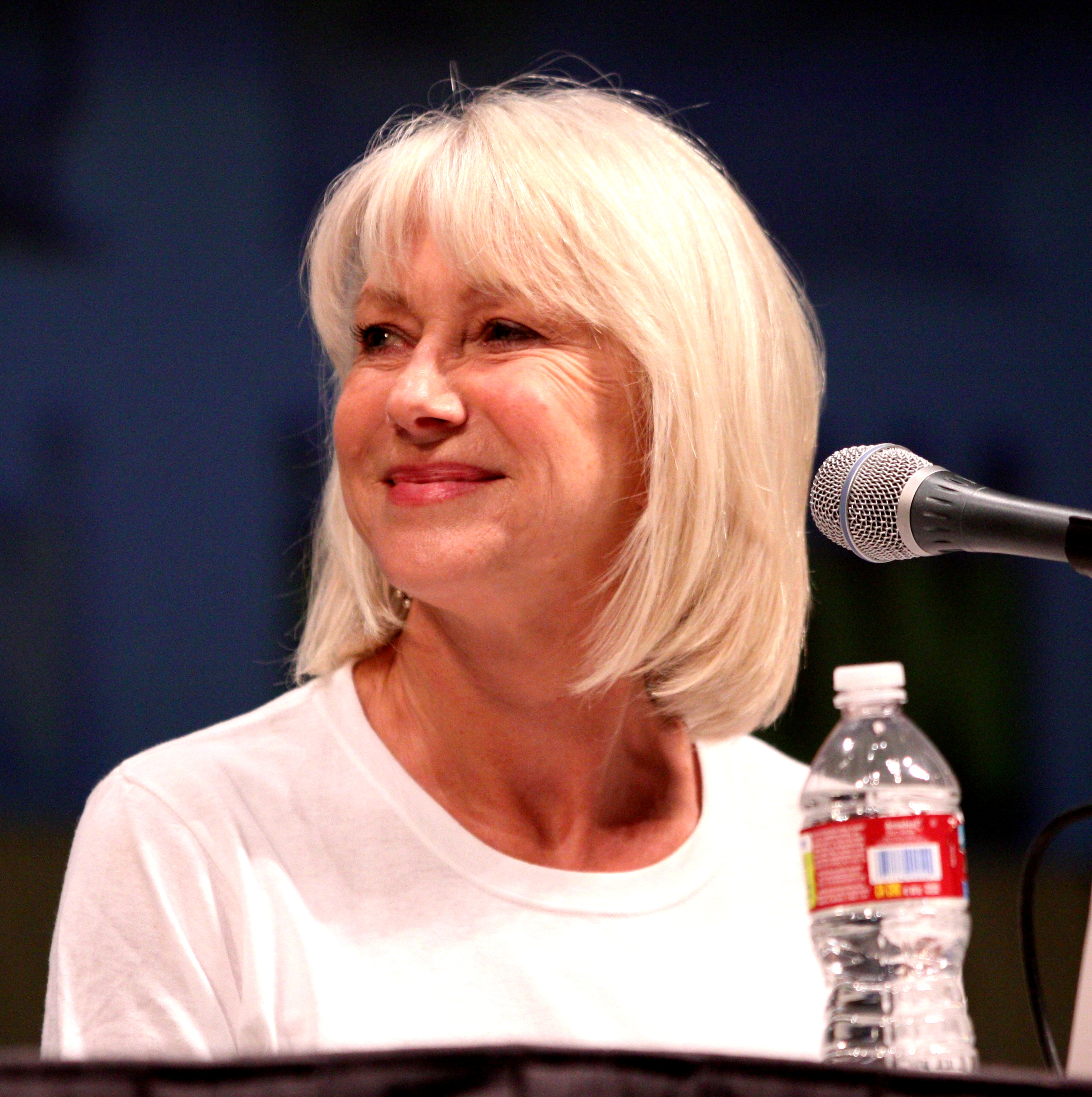 Actress Helen Mirren on the Red panel at the 2010 San Diego Comic Con in San Diego, California